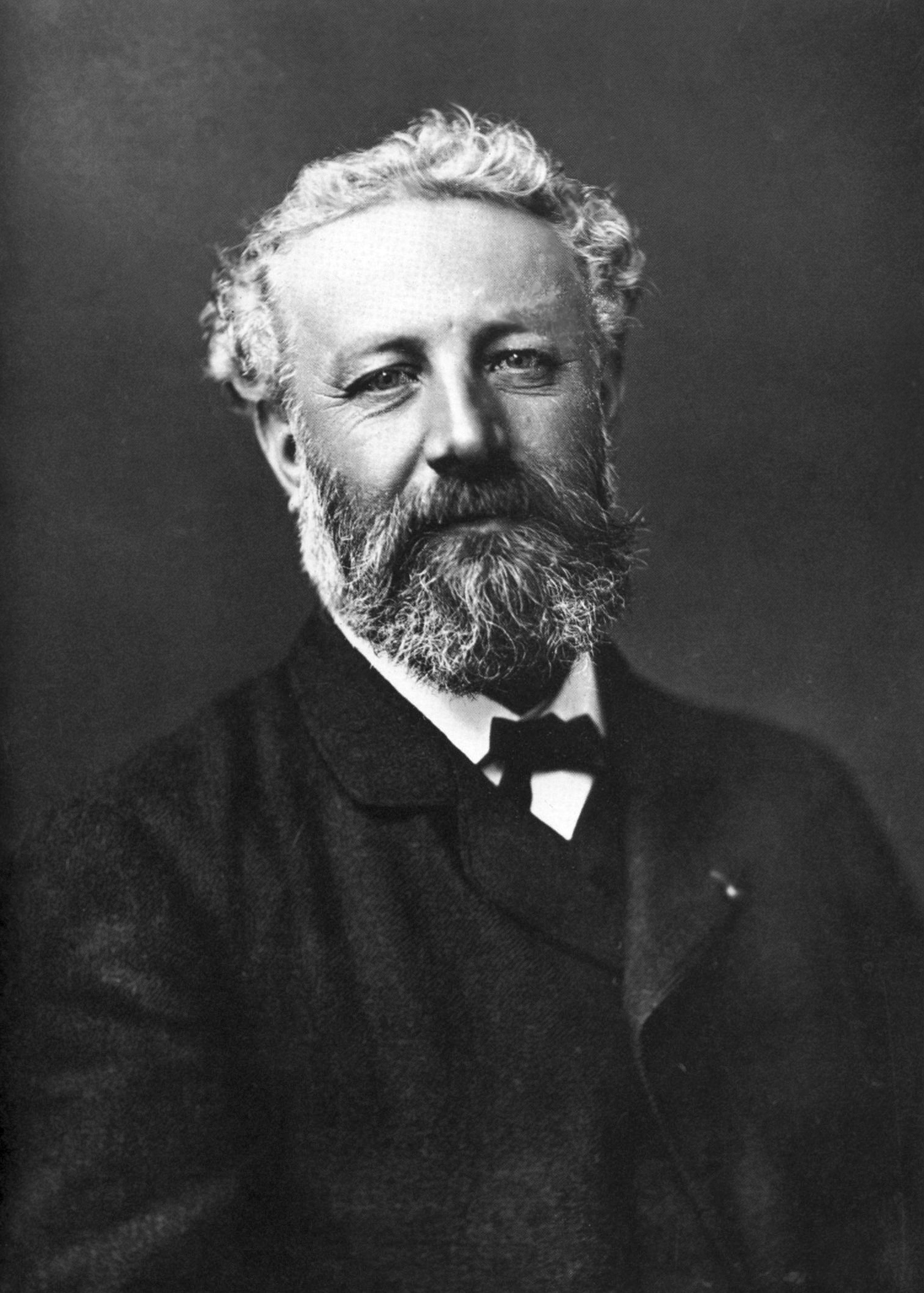 Photograph of Jules Verne by Félix Nadar